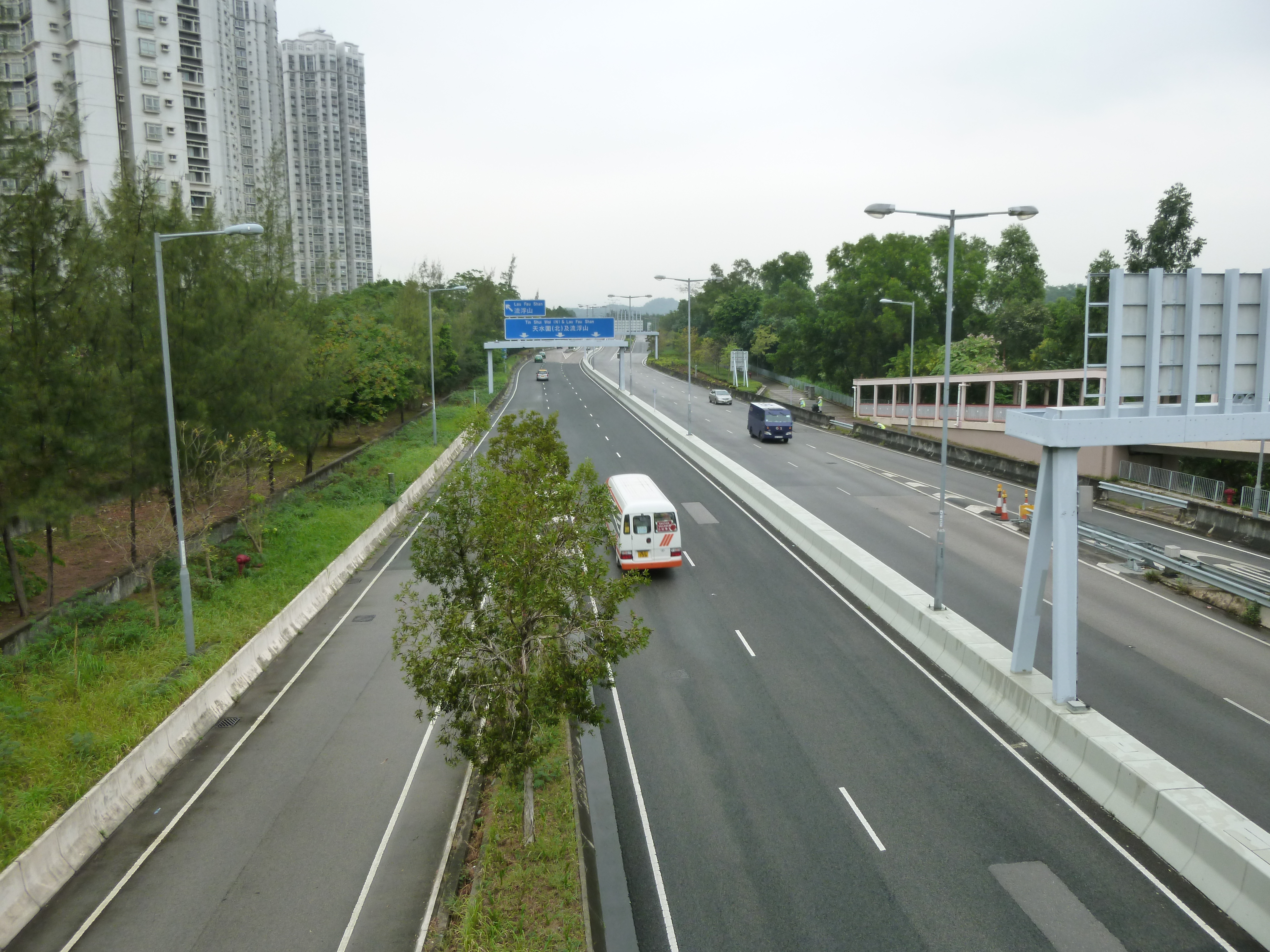 Tin Tsz Road (Tin Shui Wai, New Territories, Hong Kong) 中文（香港）: 天慈路 (香港新界天水圍)